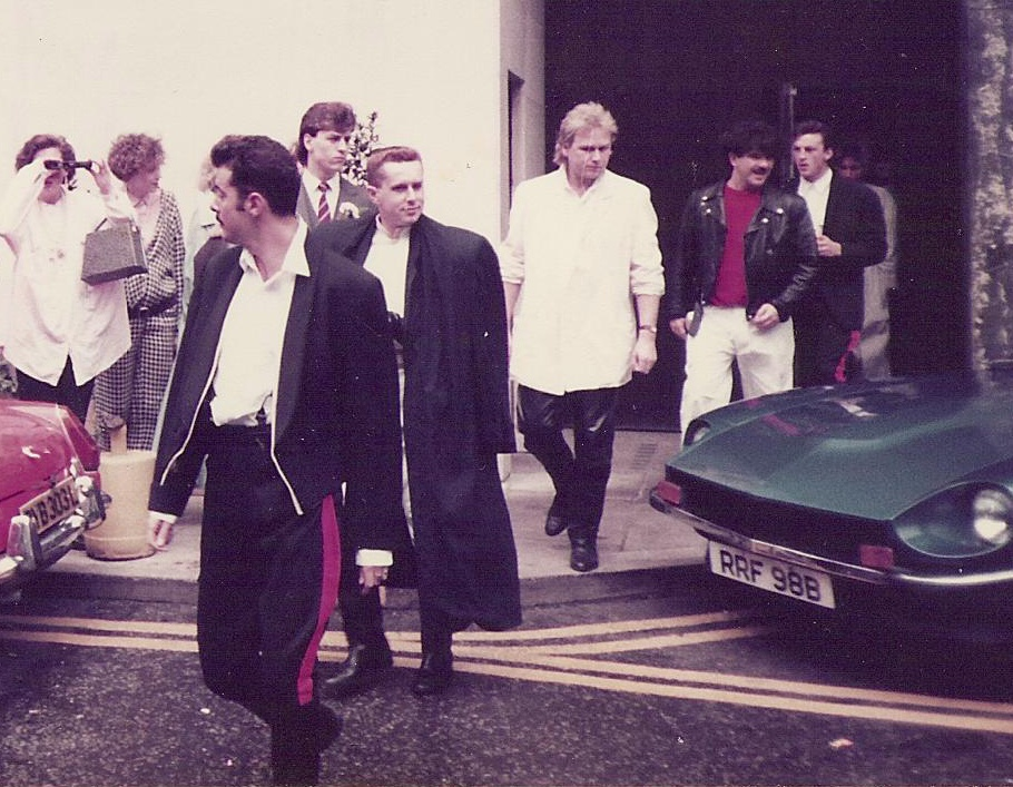 Photograph of Frankie Goes to Hollywood in London. Scan from original.